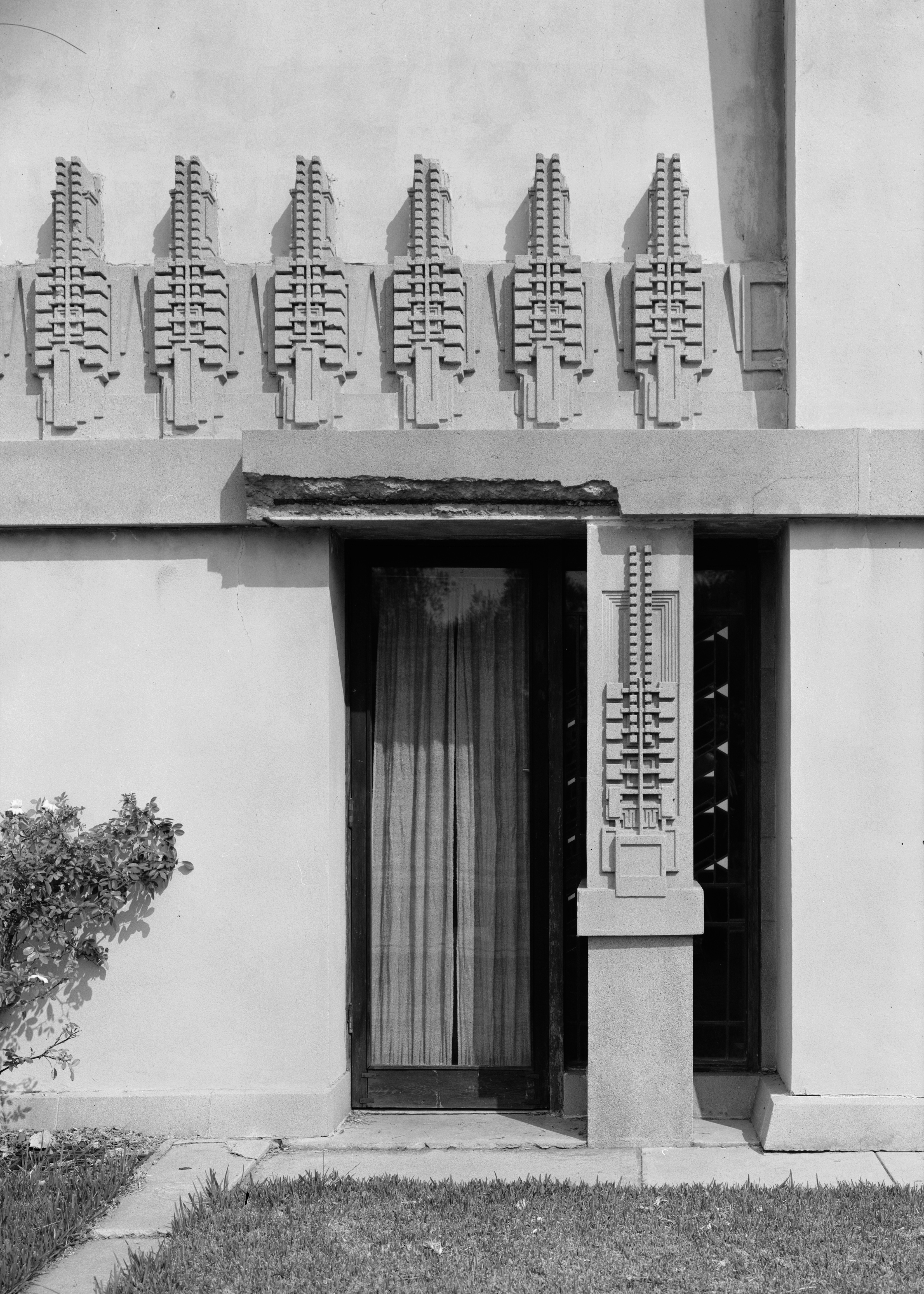 Hollyhock House — 4800 Hollywood Boulevard, East Hollywood district, Los Angeles, Los Angeles County, CA. Southwest terrace detail, with abstracted Hollyhock blossom reliefs. 1965 image: HABS—Historic American Buildings Survey in Los Angeles, Library of Congress, Washington, D. C.